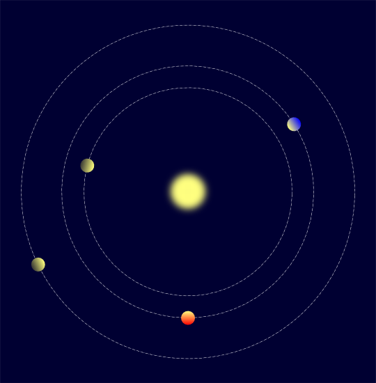 KOI 730 3:4:4:6